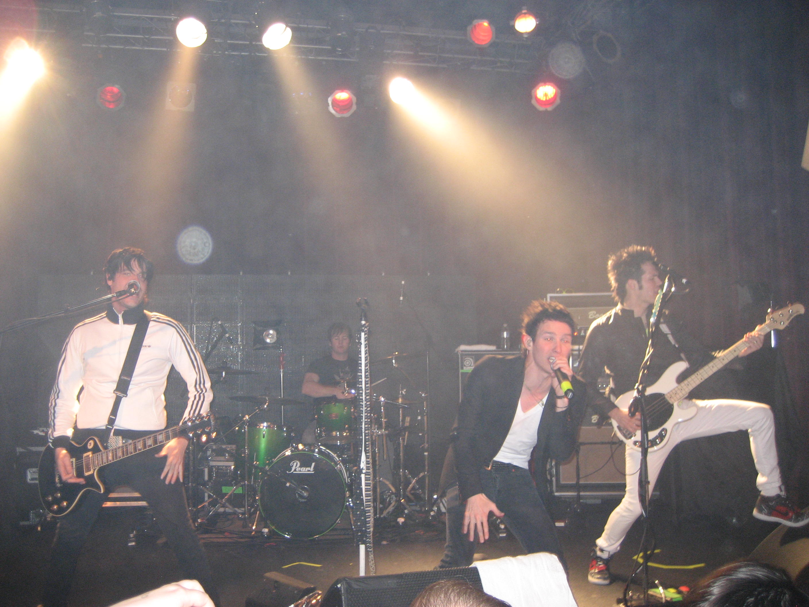 American band The White Tie Affair performing in Minneapolis, Minnesota, on March 23, 2009.